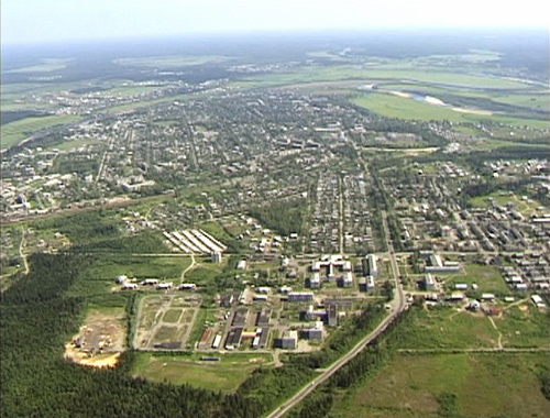 View to Velsk from aiplane. Photo by Anatoly Terentiev (from airplane), 27 Juny 2000.